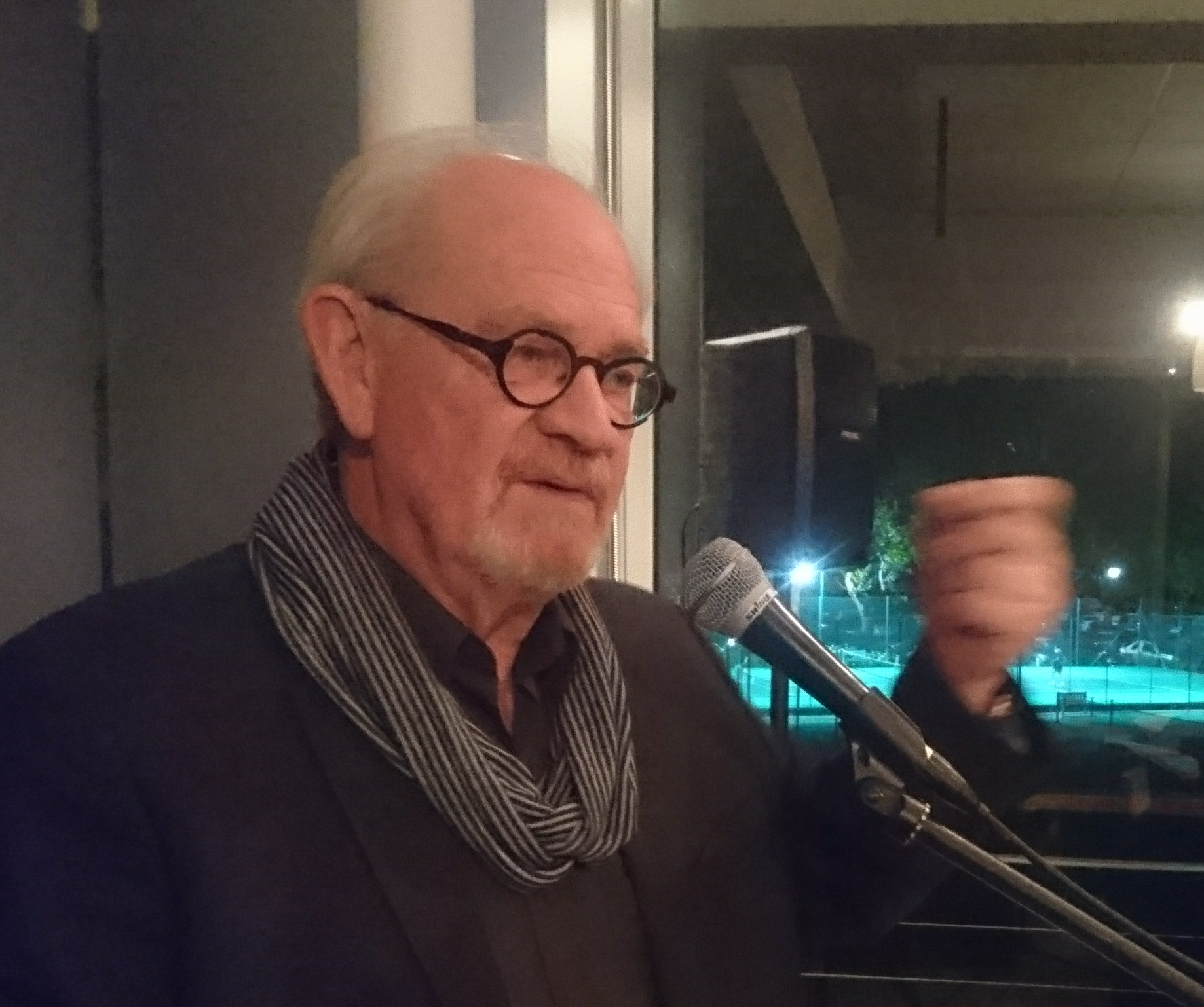 Max Du Preez giving a lecture at the Barry Streek Memorial Lecture in Cape Town.